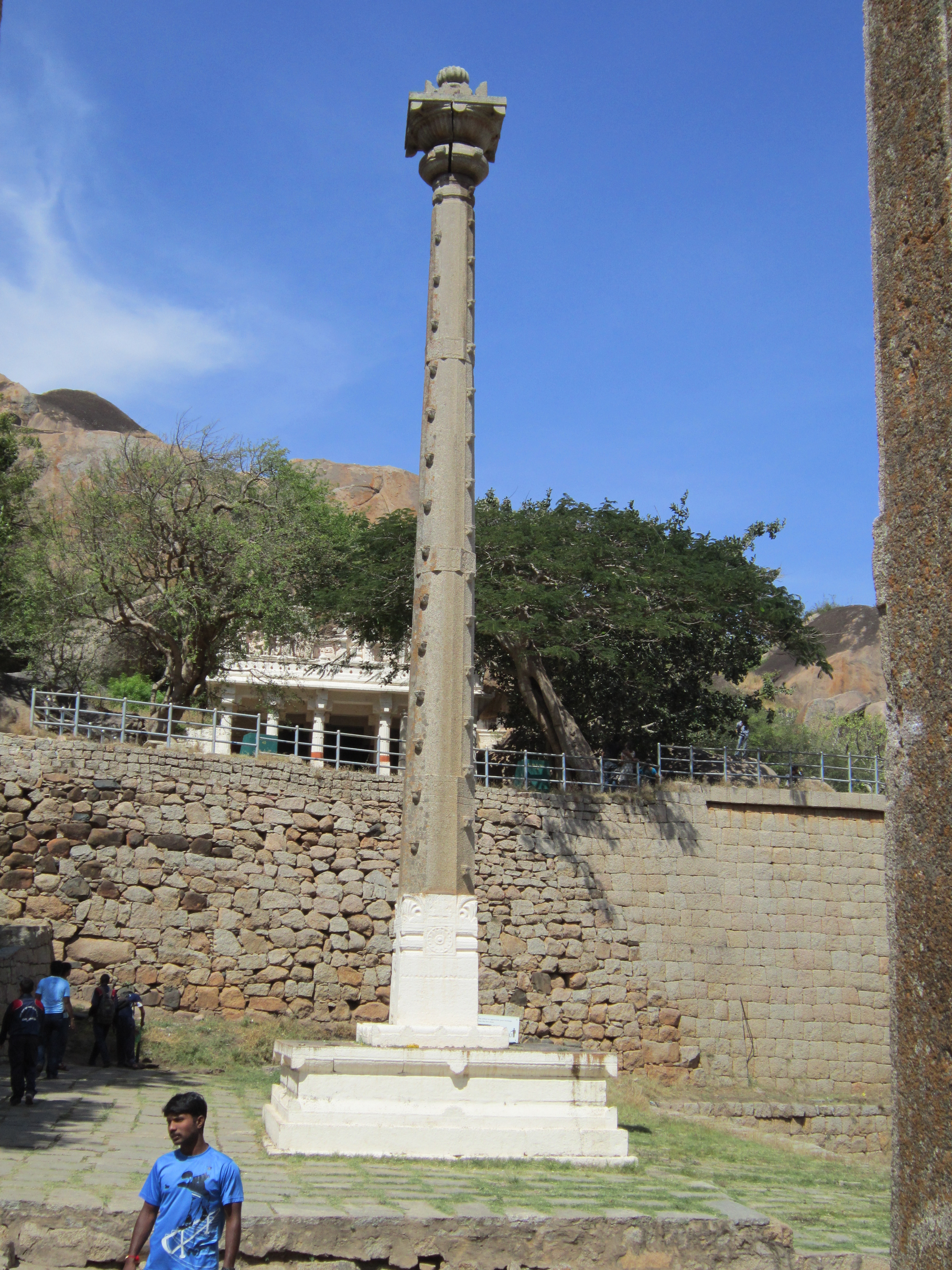 Lamp pole in chitradurga of karnataka state,India